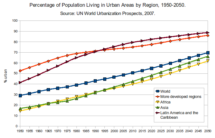 This is a chart illustrating trends in urbanization around the world. The source is UN World Urbanization Prospects, 2007.